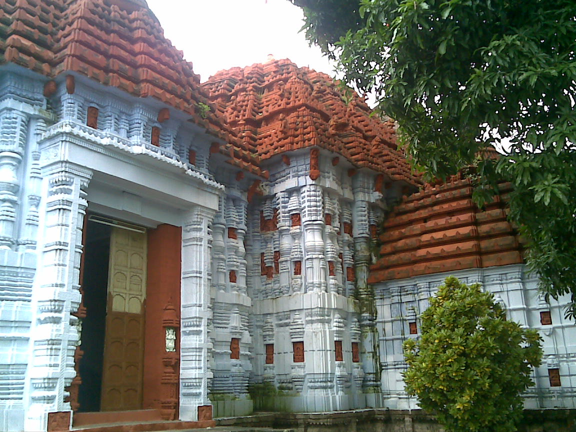 Jagannatha Temple Dharakote